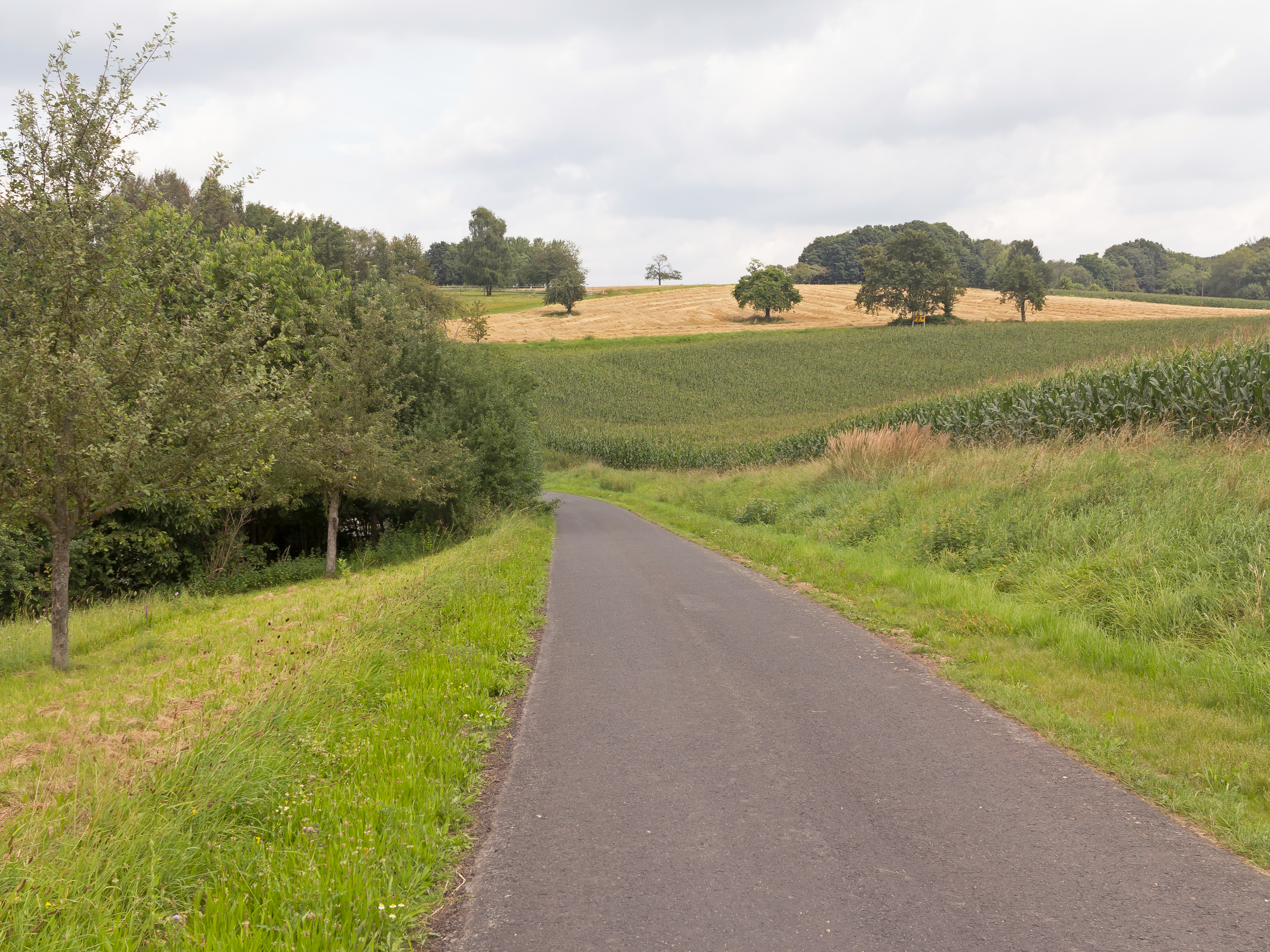 between Dörnsteinbach and Mensengesäss, road panorama